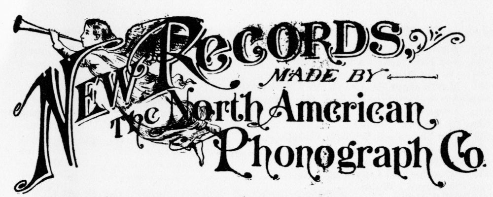 North American Phonograph Company logo, from catalog